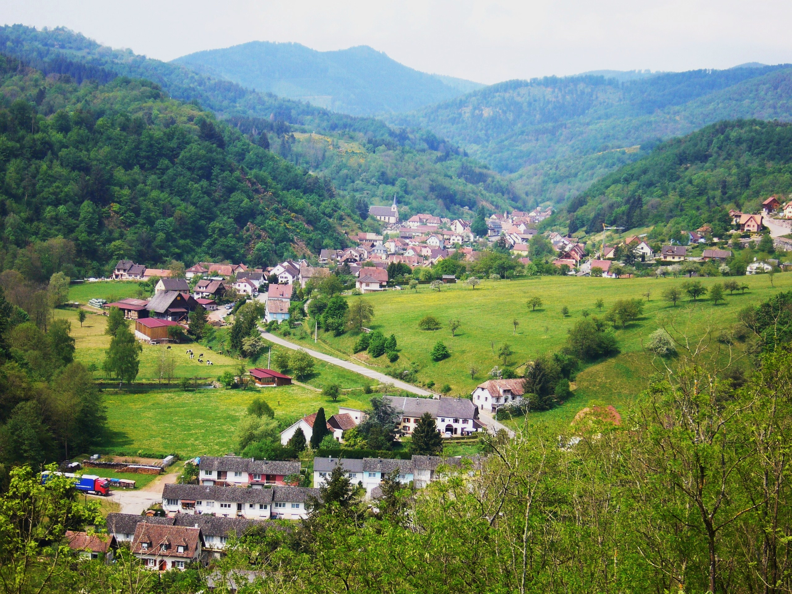 Rombach-le-Franc 061.JPG